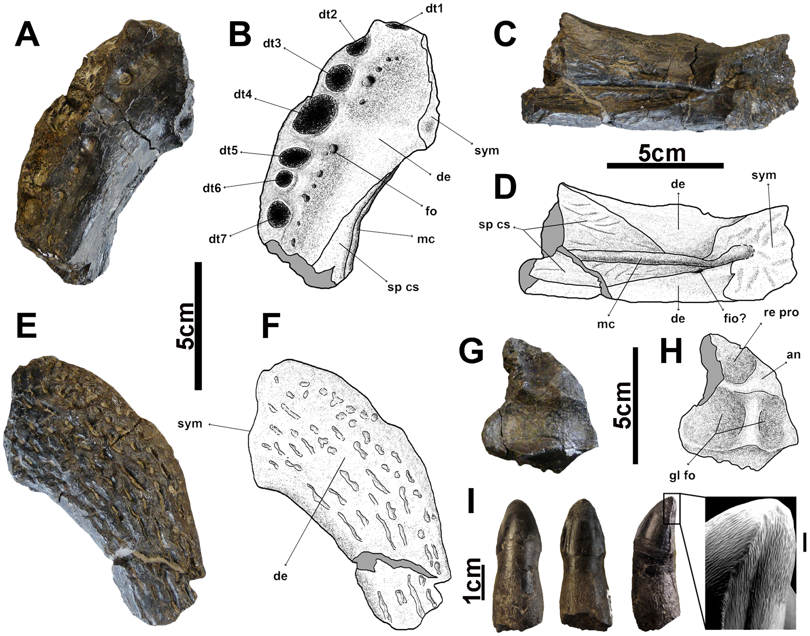 Mandibular bones and teeth of Allodaposuchus palustris sp. nov. from the Fumanya locality. A, C, E, anterior tip of the left dentary in occlusal, lingual and ventral views; B, D, F, interpretative drawings of A, C and E; G, articular; H, interpretative drawing of G; I, a tooth in labial, lingual and lateral views and a detail of the ornamentation of the crown surface (scale 1 mm). Abbreviations: an, angular; dt1-7, tooth alveoli1-7; de, dentary; fim, foramen intermandibularis oralis; fo, foramen; gl fo, glenoid fossa; mc, Meckelian canal; re pro, retroarticular process; sp cs, splenial scar; sym, symphysis.